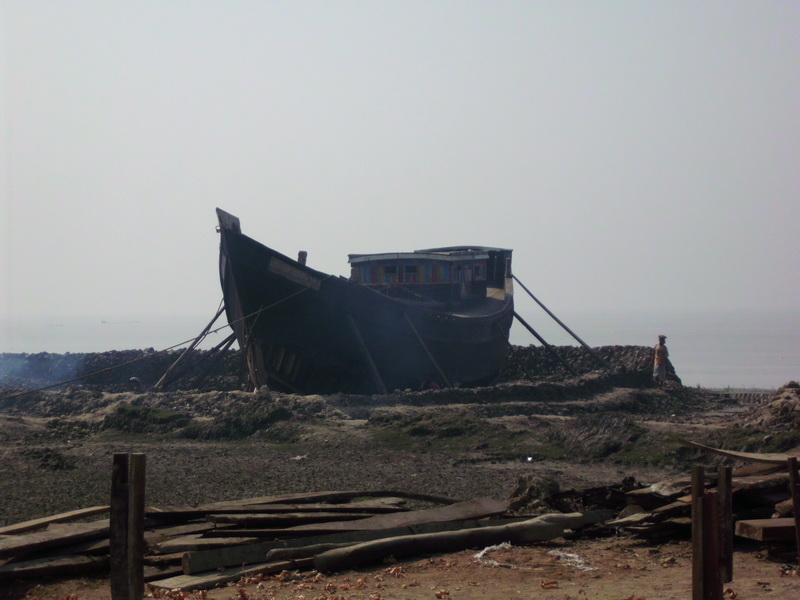 Making of Ships at the coastal area of sandwip Captured by Rahat